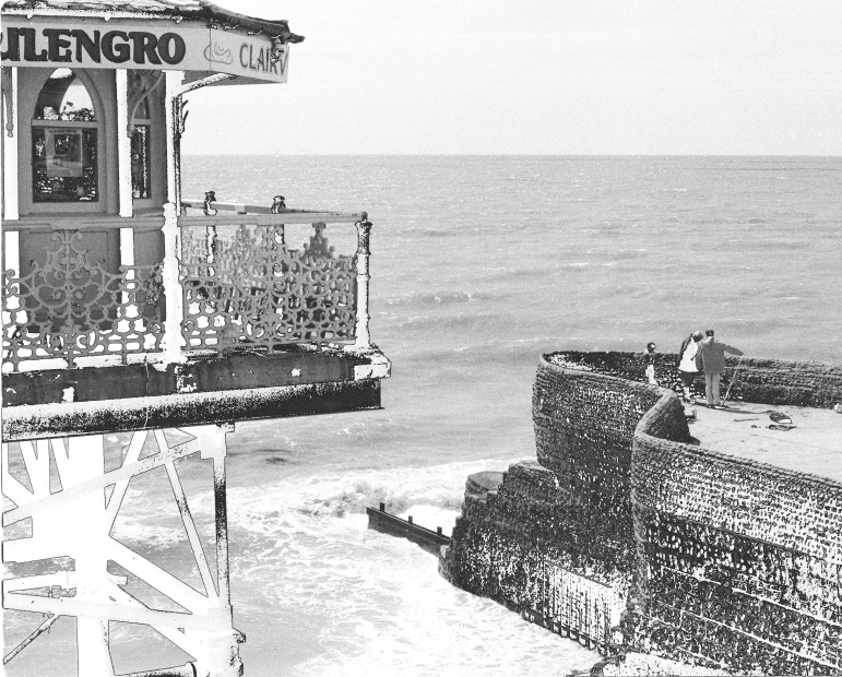 Solarised black and white photograph of a pier - to be contrasted with a similar but un-solarised print